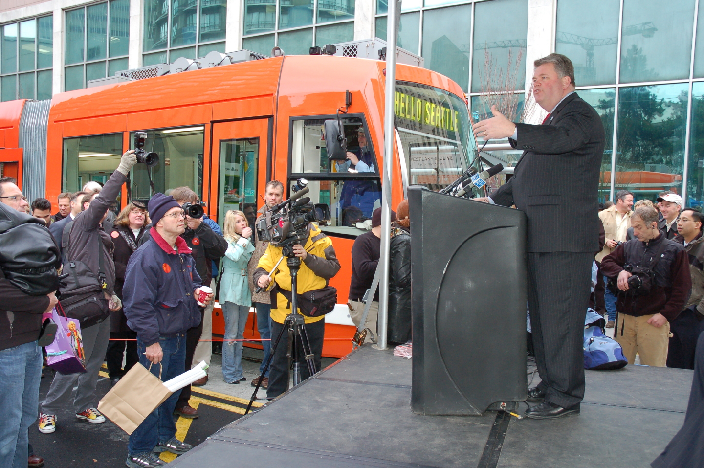 Mayor Greg Nickels speaks prior to the inaugural run of the South Lake Union streetcar on 12 December 2007.